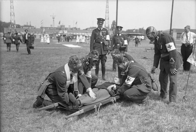 Paramedics in Red Cross training. From the practice area of the German Red Cross in 1931, a patient lies down on a stretcher to be taken away by paramedics.